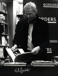 Photojournalist David Burnett at his first book signing, "Soul Rebel". This image was shot using a Speed Graphic, one of Burnett's cameras of choice.